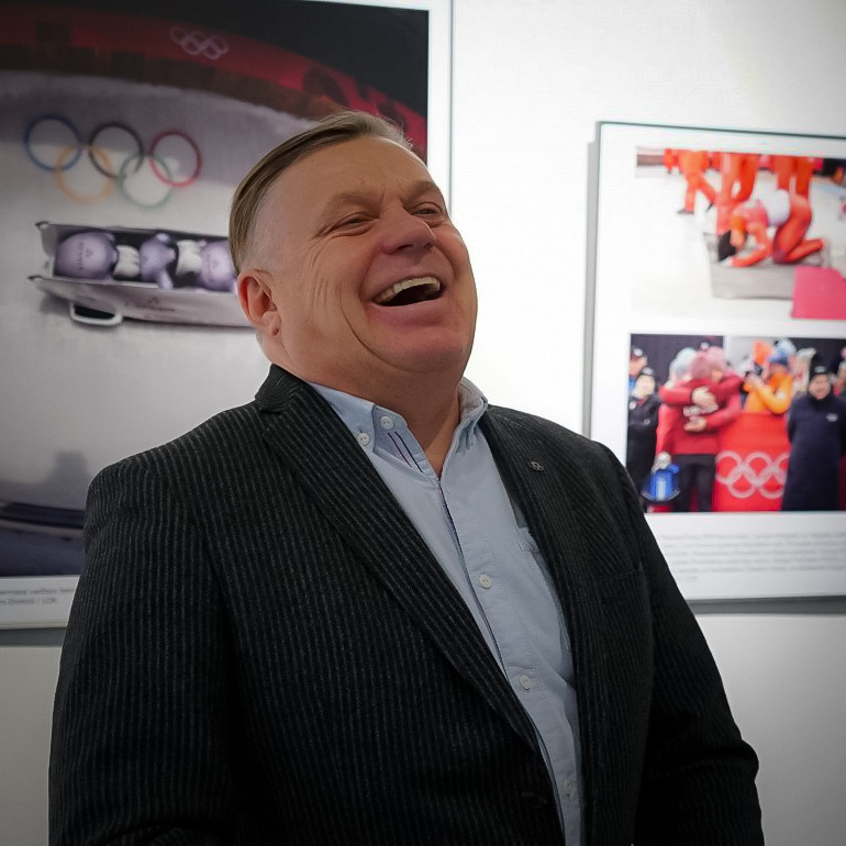 Zintis Ekmanis - Secretary general - Latvian Bobsled and Skeleton Federation, Four times winter olympian